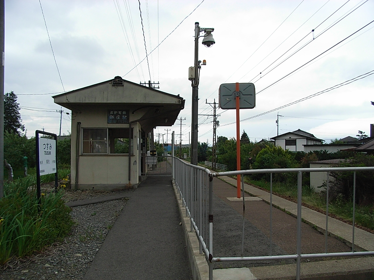 Tsusumi Station on Nagano Electric Railway Nagano Line. (472-4,Tsusumi,Obuse-machi,Kamitakai-gun,Nagano-ken,JAPAN)